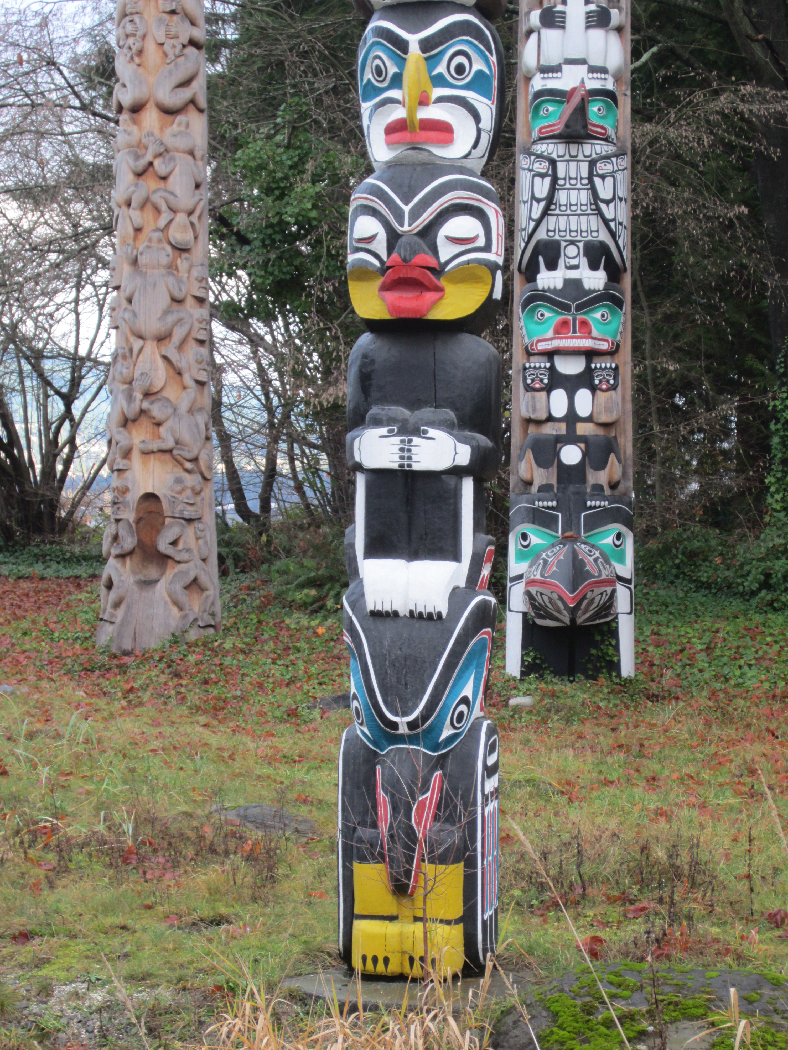 Totem poles at Stanley Park, Vancouver, British Columbia (2012)